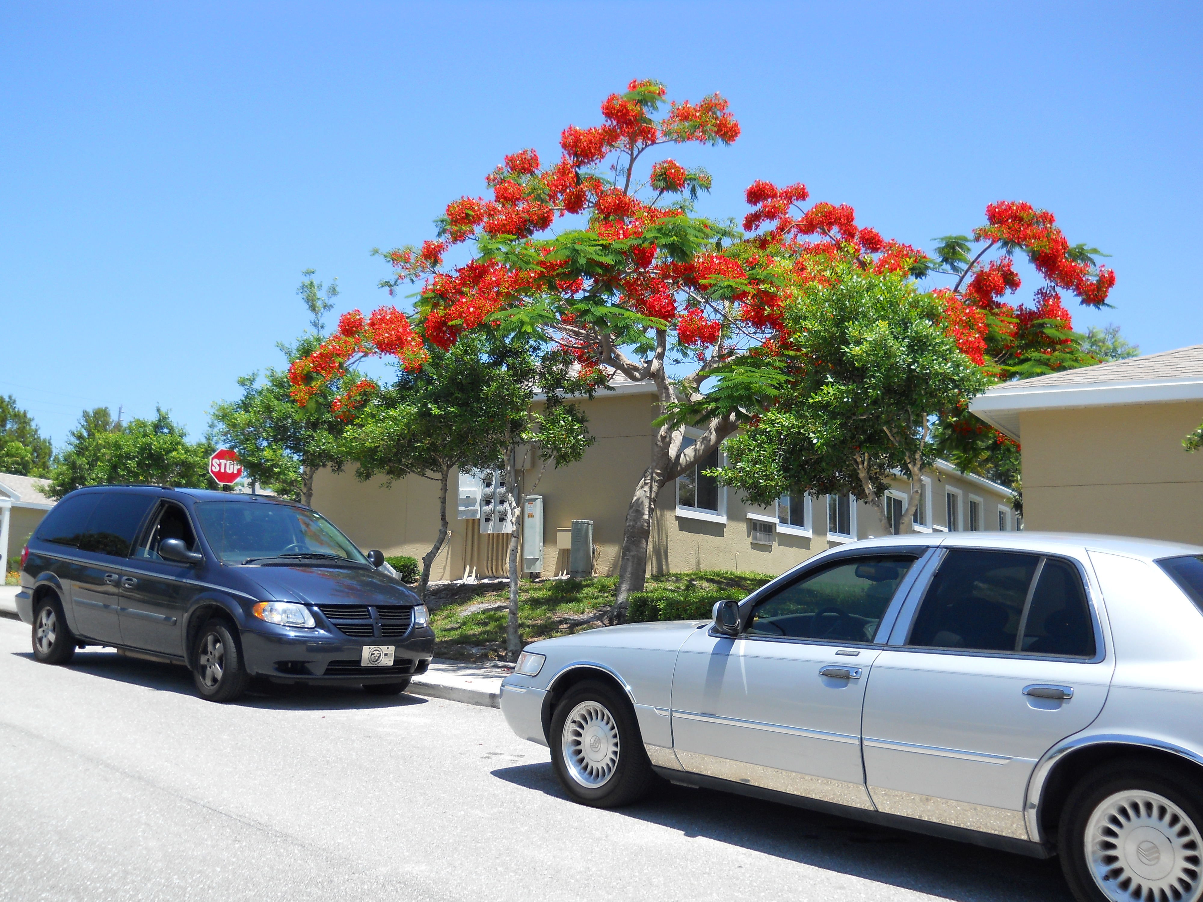 Royal Poinciana (Delonix regia) in Jensen Beach, Martin County, Florida